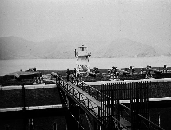 Public Domain statement here; Fort Point Light was a lighthouse on Fort Point, directly beneath the south anchorage of the Golden Gate Bridge in San Francisco, California. It was added to the National Register of Historic Places in 1970, reference #70000146.